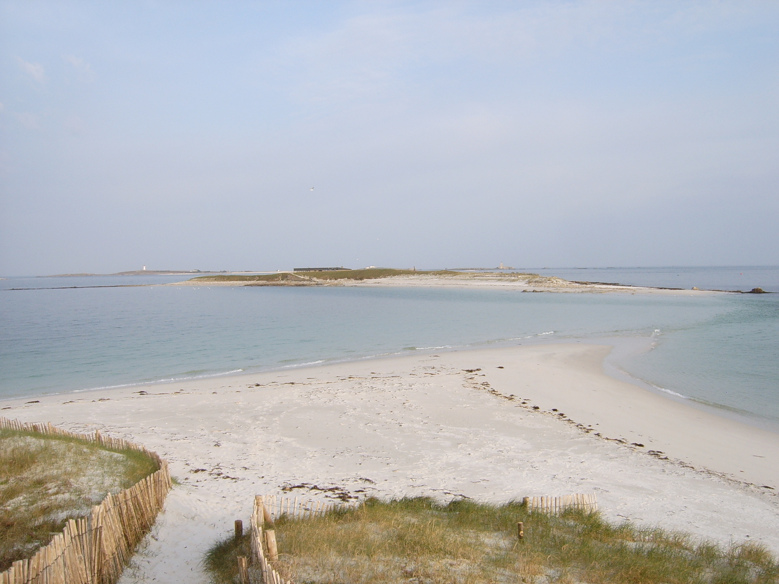 Glénan islands, Bananec from St Nicolas